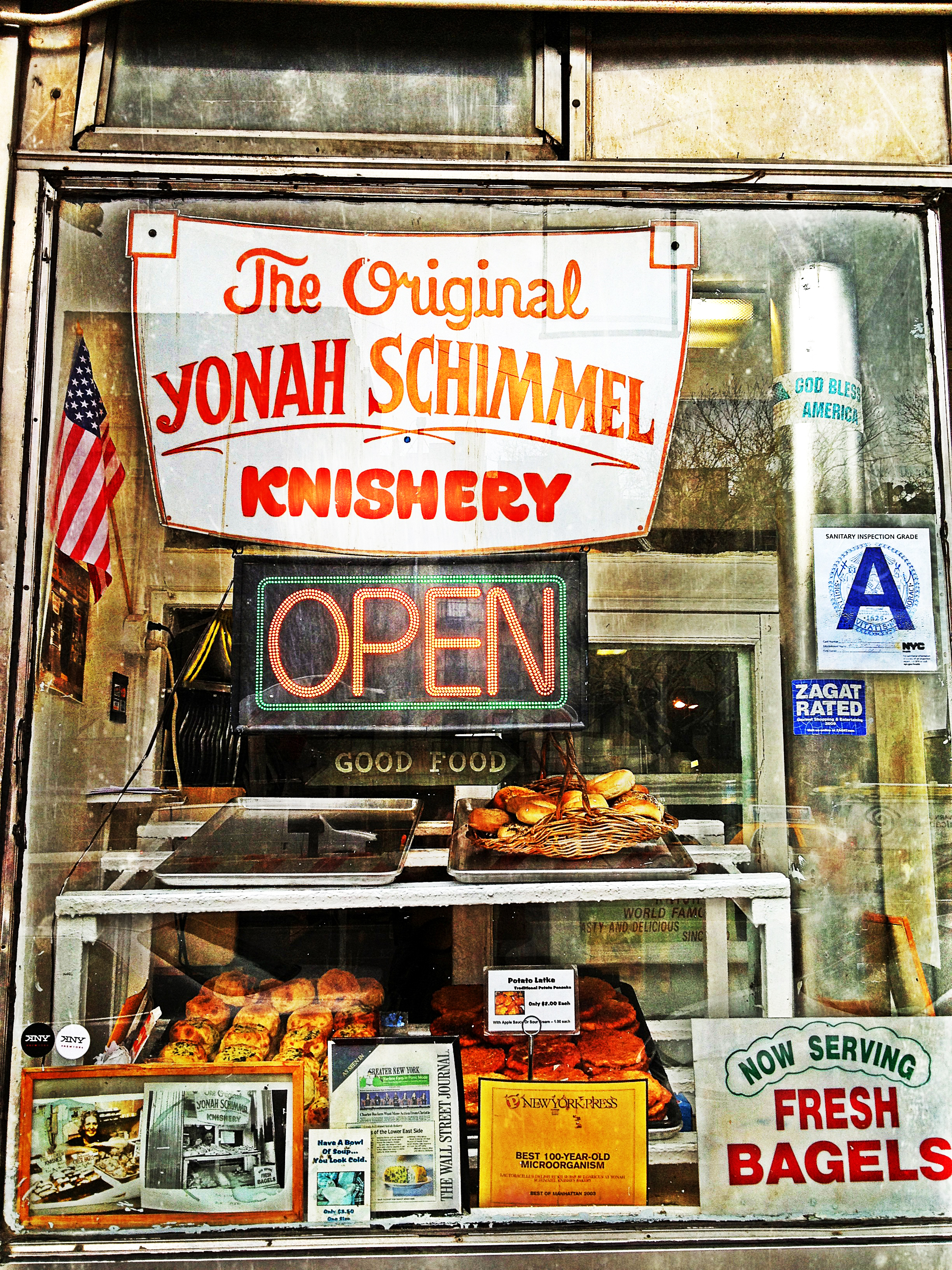 The front window of the Yonah Schimmel's Knish Bakery on East Houston Street in New York's Lower East Side